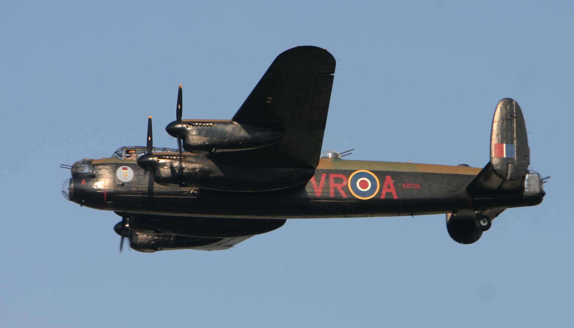 The Canadian Warplane Heritage Museum (CWHM) "Mynarski Memorial" Lancaster flying at the 2006 AirVenture America air show at Oshkosh, Wisconsin.